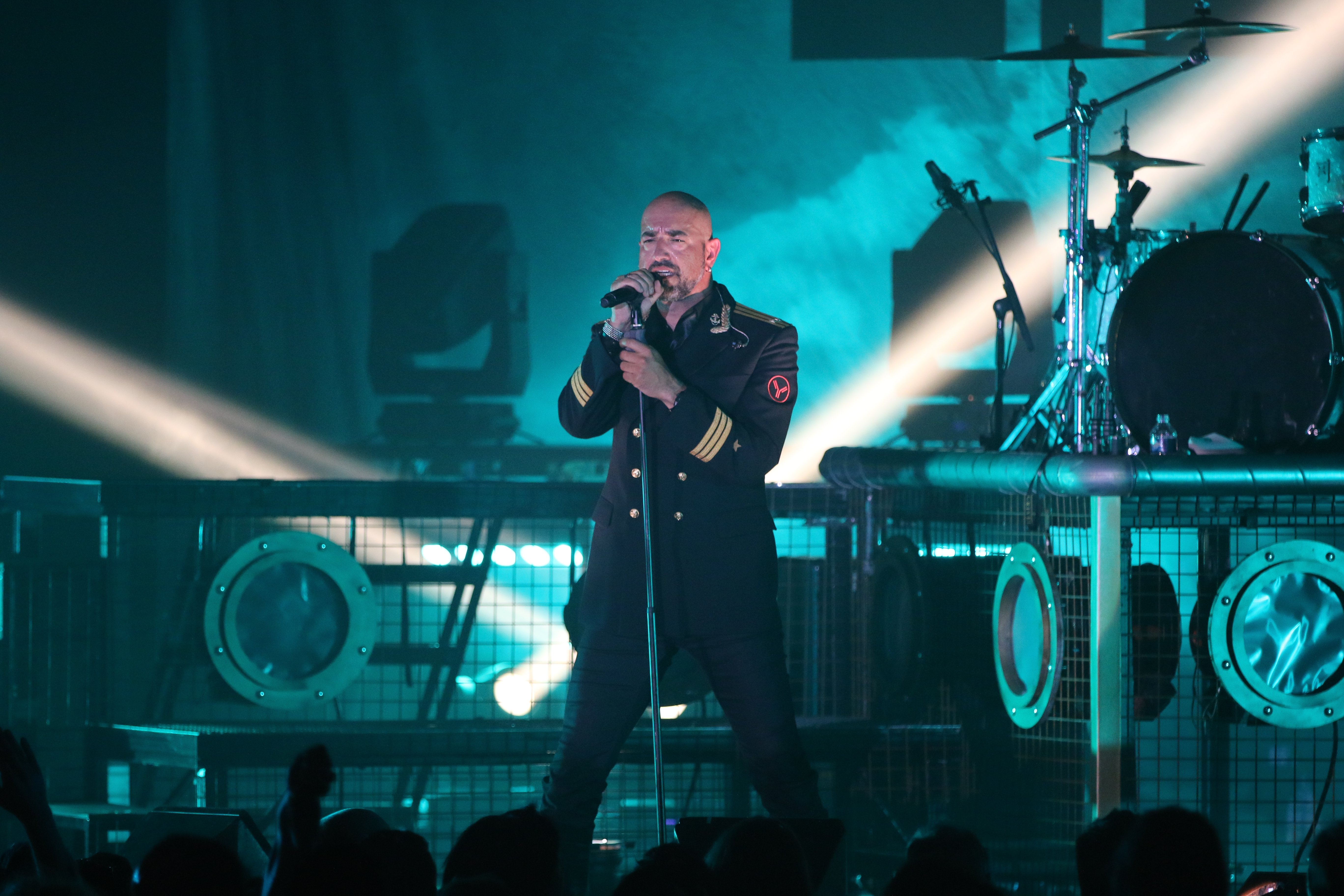 Eisbrecher at the Zelt-Musik-Festival in Freiburg im Breisgau on July 17th, 2016.